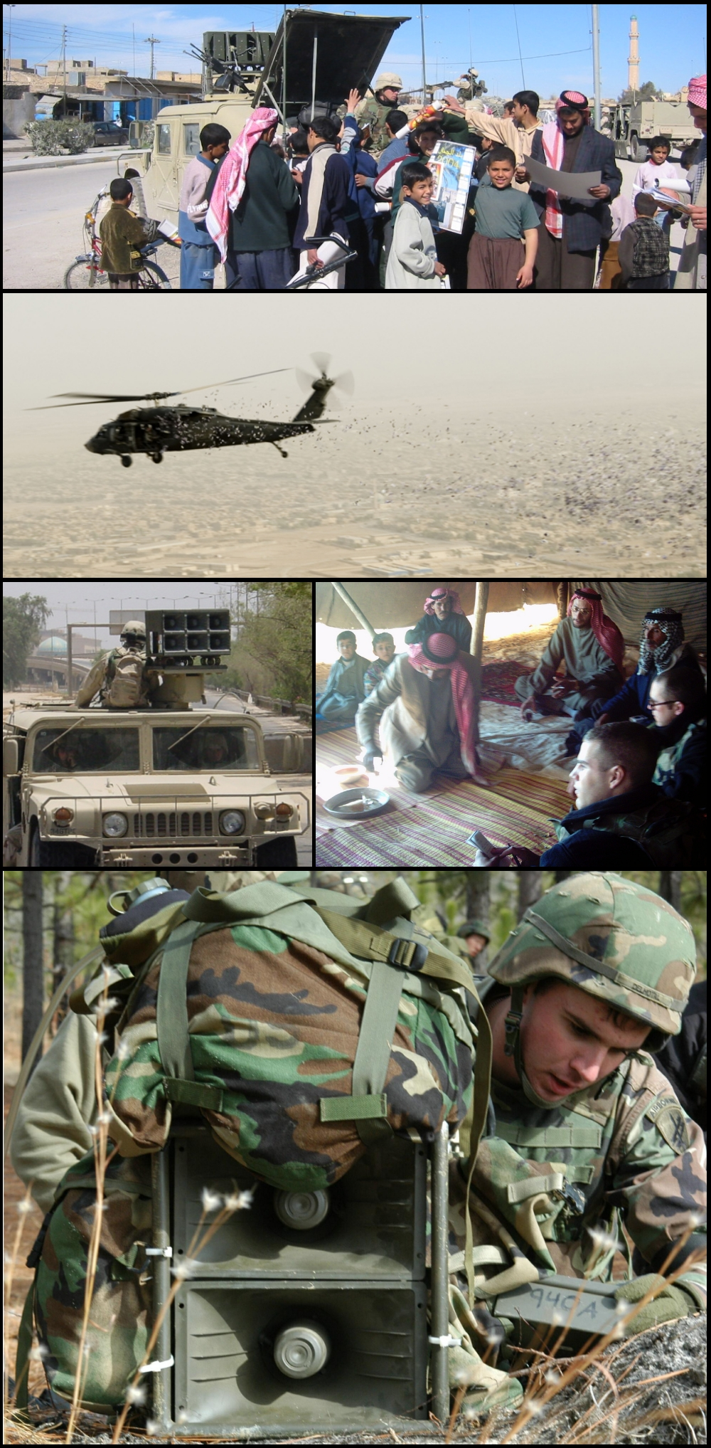 From top to bottom, left to right: (1) Photo self-taken (Iraq; 2003-2004), released into public domain by author. (2) Photo from the USCAPOC Website: Info - Maj. John Ross disperses 30,000 leaflets over a specific target location in Baghdad, Iraq on June 23. Ross is helping the 315th Tactical Psychological Operations Company drop leaflets which identify a known insurgent in order to alert the people of Baghdad that he is operating in their area and should be reported to the Iraqi police. Sgt. Felix Fimbres, USACAPOC(A) Public Affairs Specialist ∙ June 23, 2009 ∙ Baghdad, Iraq (3) Photo self-taken (Iraq; 2003-2004), released into public domain by author. (4) Photo self-taken (Iraq; 2003-2004), released into public domain by author. (5) Photo from the US Army Special Operations Website: Info - Spc. Jarod Delhotal, a psychological operations specialist assigned to Company B, 9th PSYOP Battalion, operates a portable loudspeaker as he broadcasts messages in Russian to role players in the Military Operations in Urban Terrain city at Range 68 on Feb. 5. (Photo by Sgt. Kyle J. Cosner, USASOC PAO)